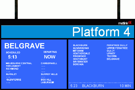 This is a drawing created by myself showing Metlink's CRT TV PID display which is installed at City Loop stations in Melbourne, Australia as well as North Melbourne, Richmond and Box Hill